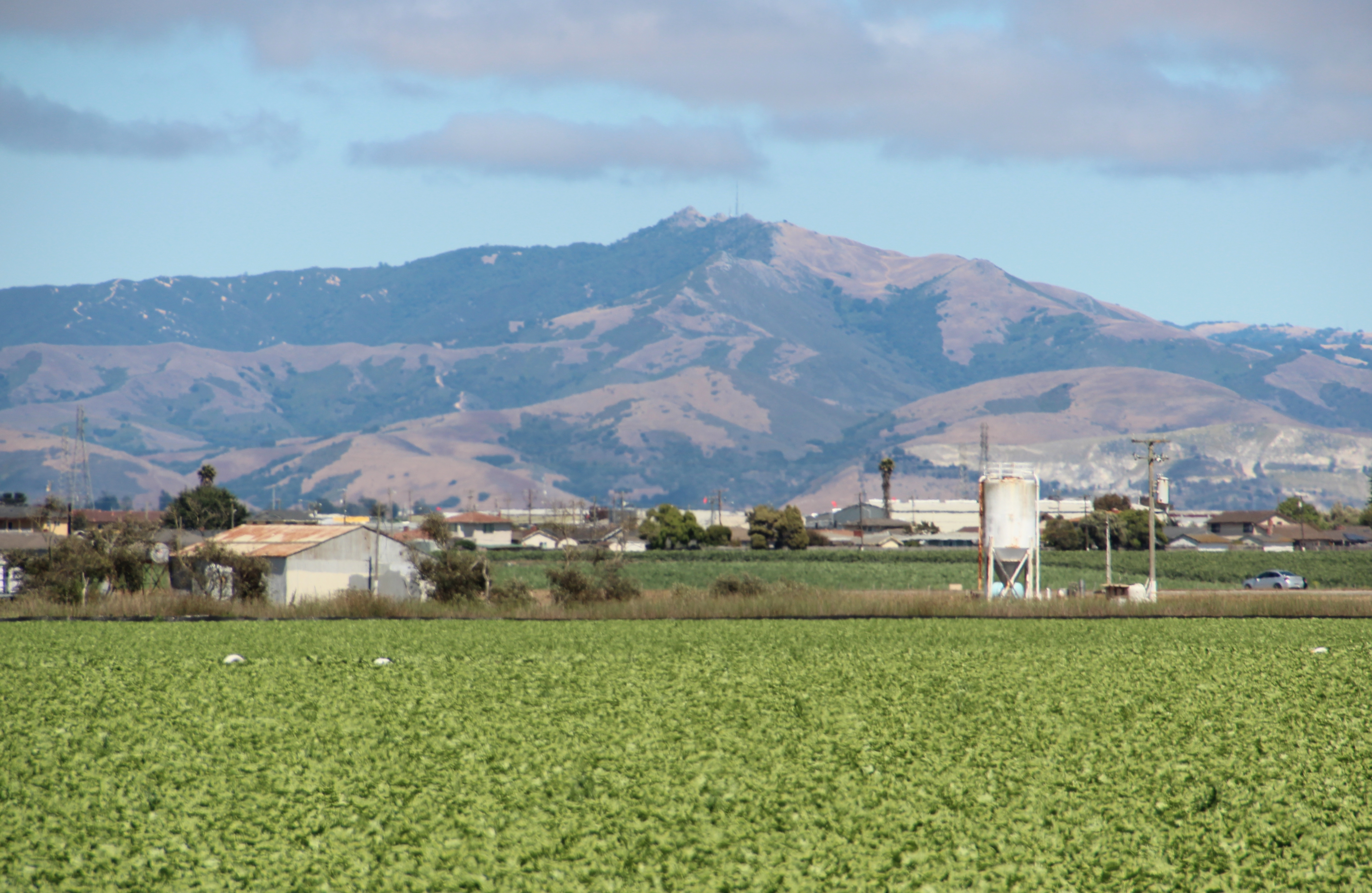 Fremont Peak viewed from California State Route 1 near Castroville